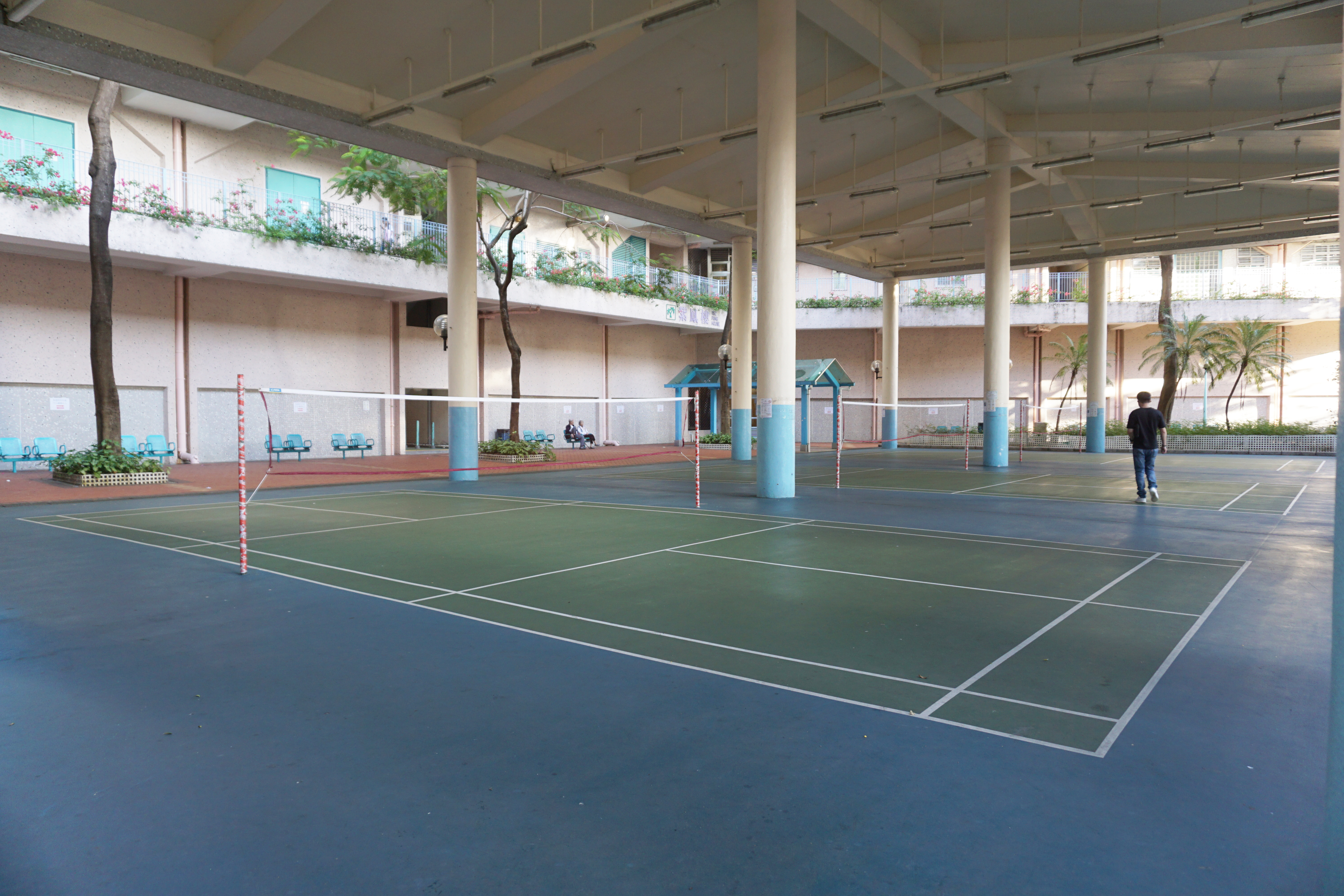 Fung Tak Estate in Diamond Hill, Hong Kong.